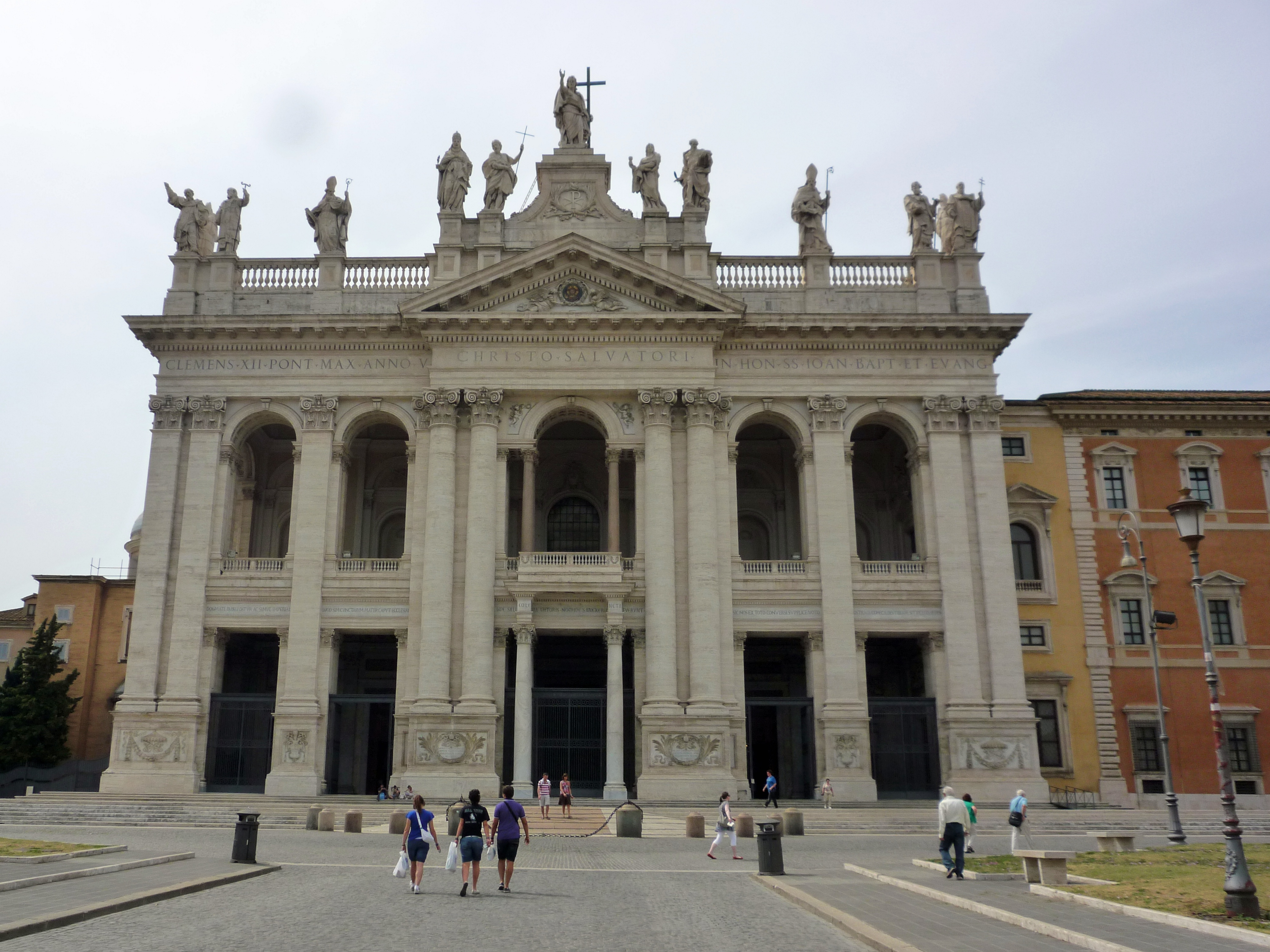 Basilica of St. John Lateran - south facade